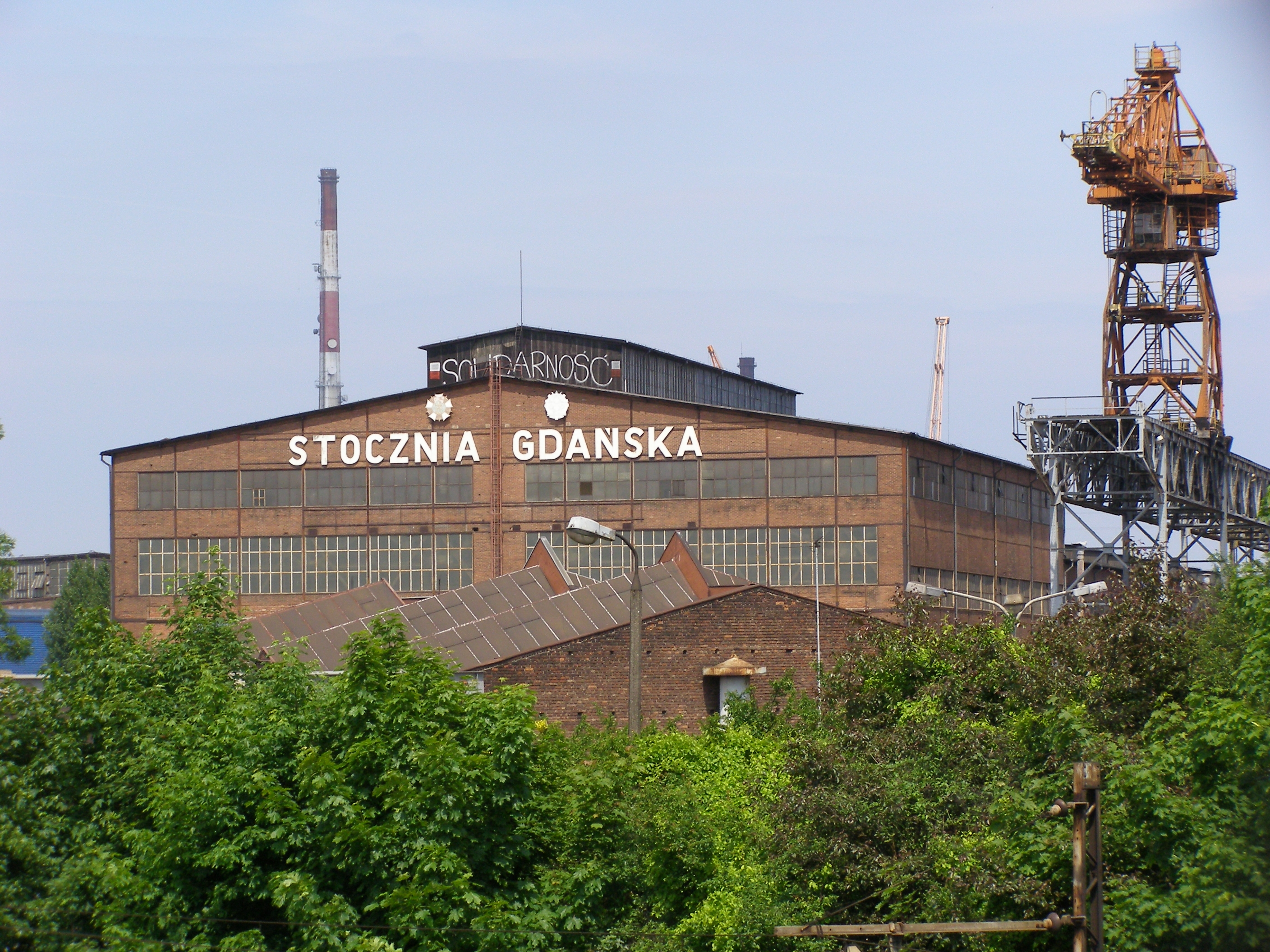 Gdańsk - shipyard